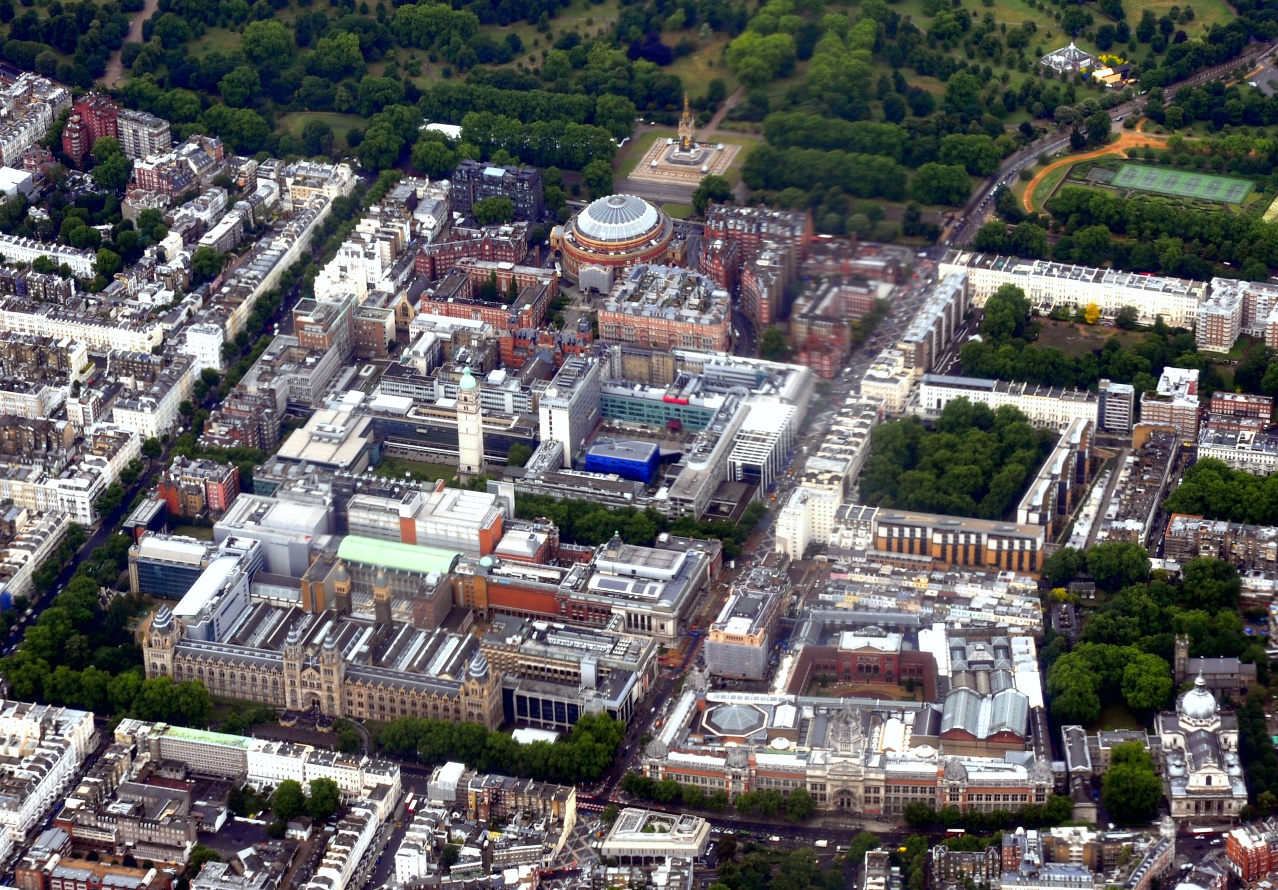 Aerial photograph of the Kensington Museums area (Natural History Museum, Science Museum, Victoria & Albert Museum, Imperial College, Royal Albert Hall, Albert Memorial)